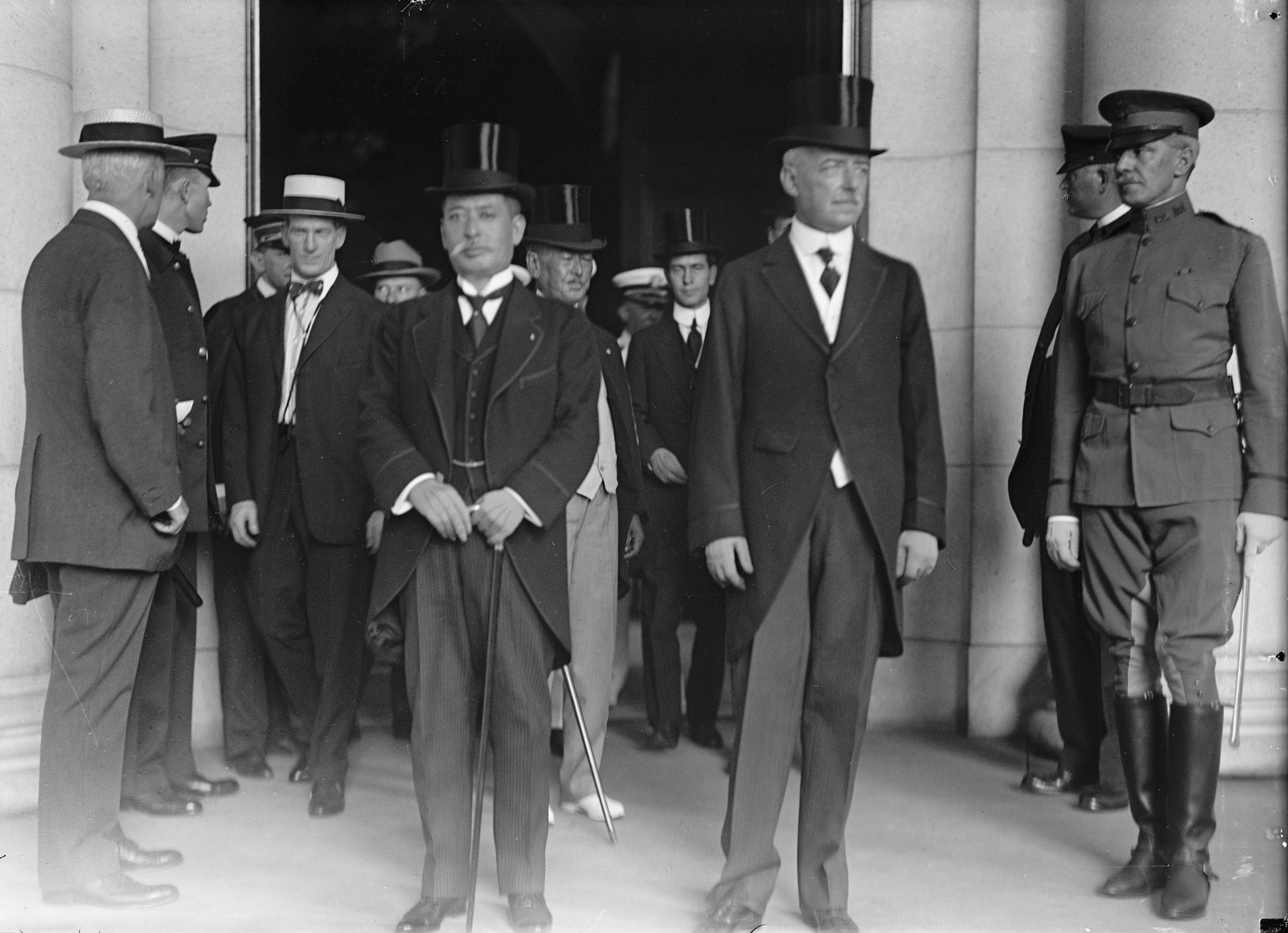 Viscount Kikujirō Ishii and US Secretay of State Robert Lansing in Washington DC, 1917